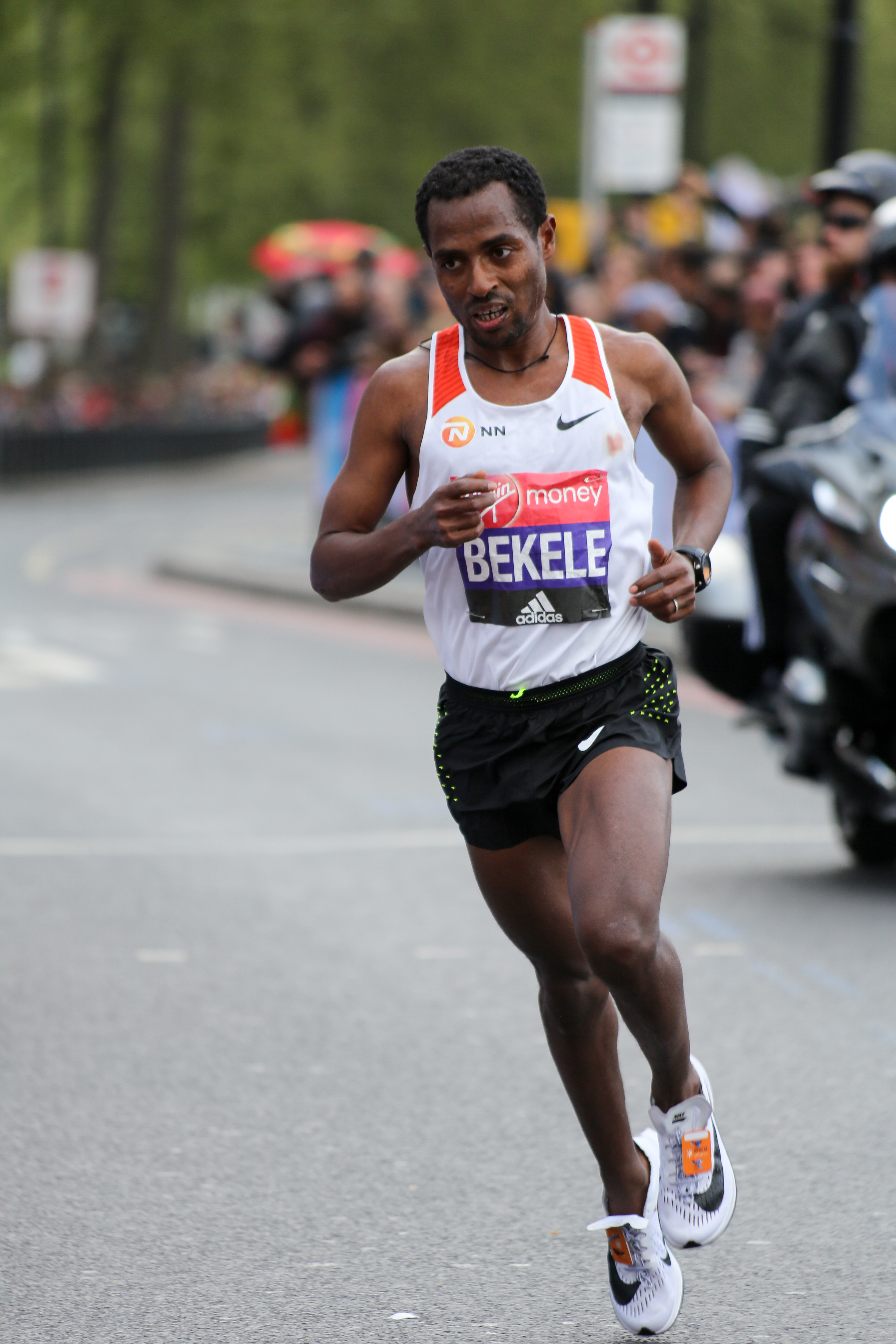 2017 London Marathon – Kenenisa Bekele